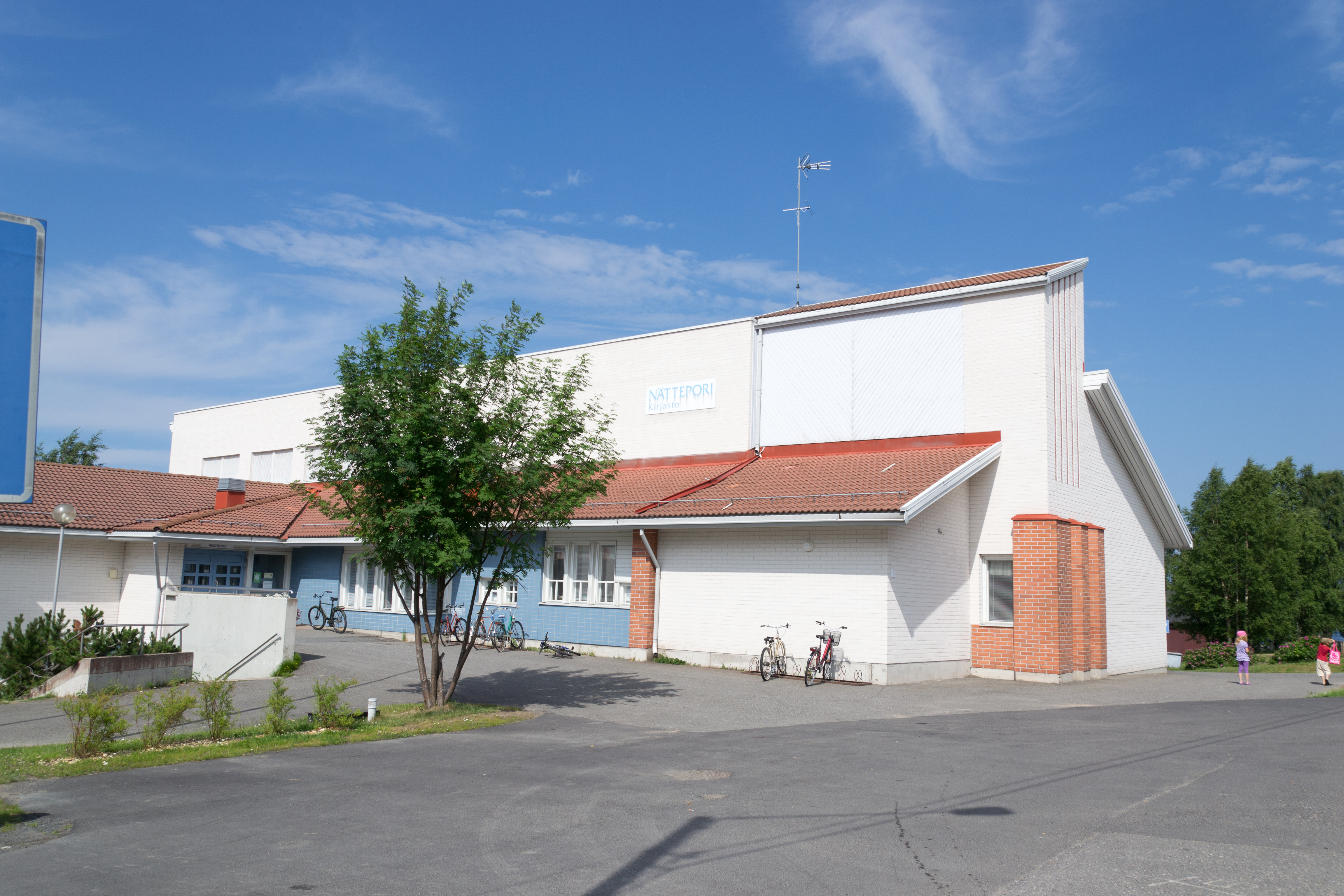 Library of Ii